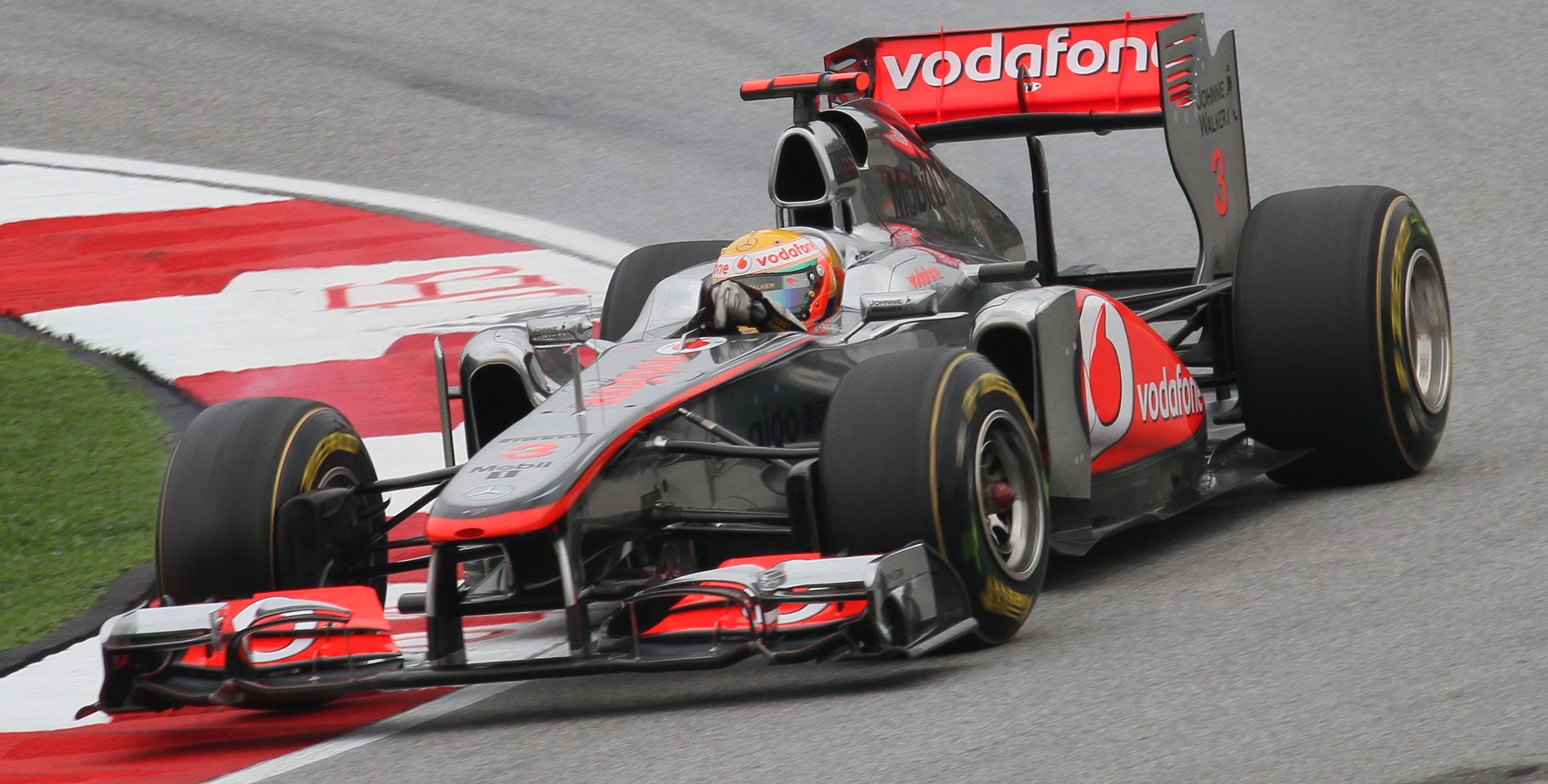 Formula One 2011 Rd.2 Malaysian GP: Lewis Hamilton (McLaren) during the qualify session on Saturday.